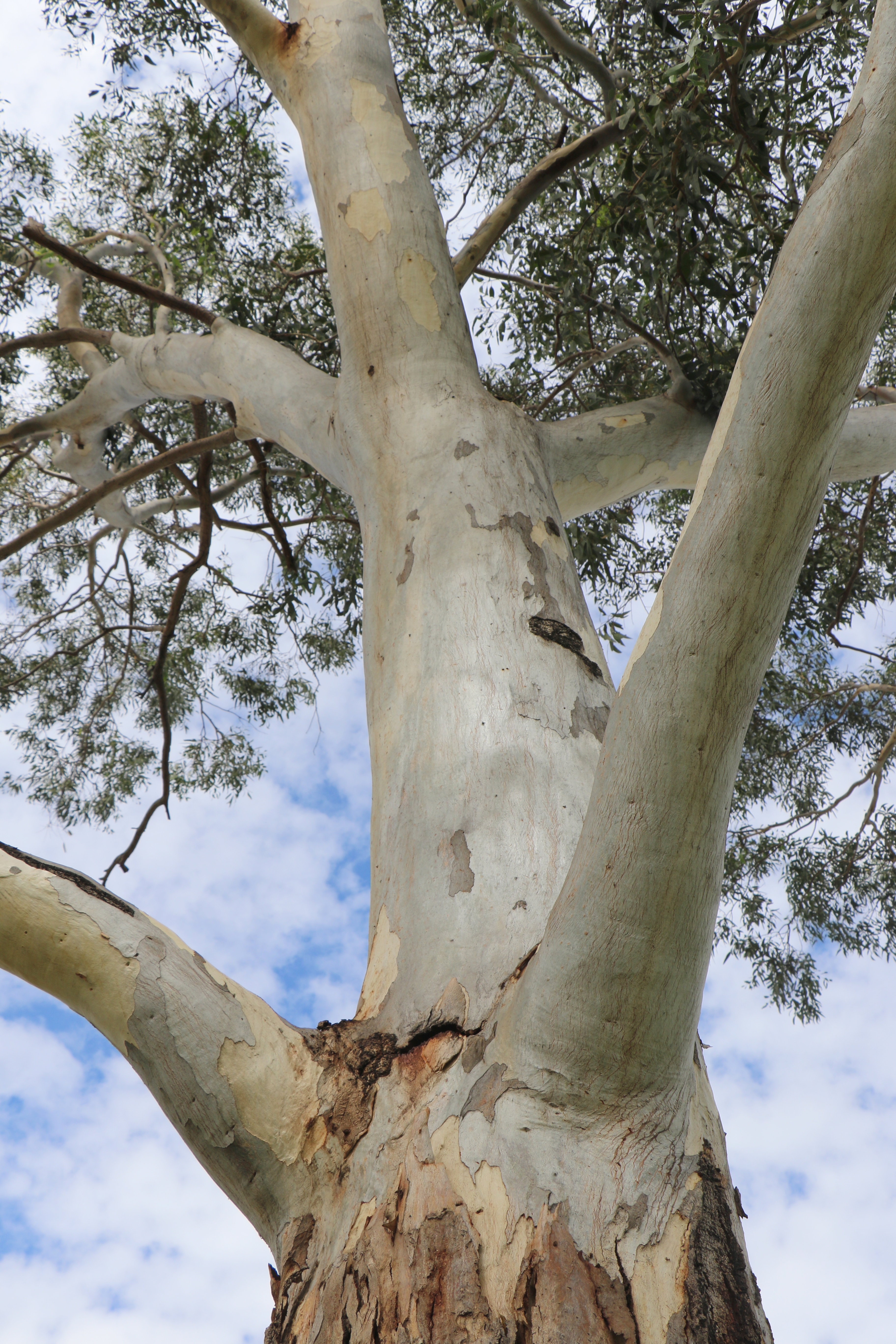 Eucalyptus parramattensis, at Harris Park, Parramatta. Labelled and planted in 1991